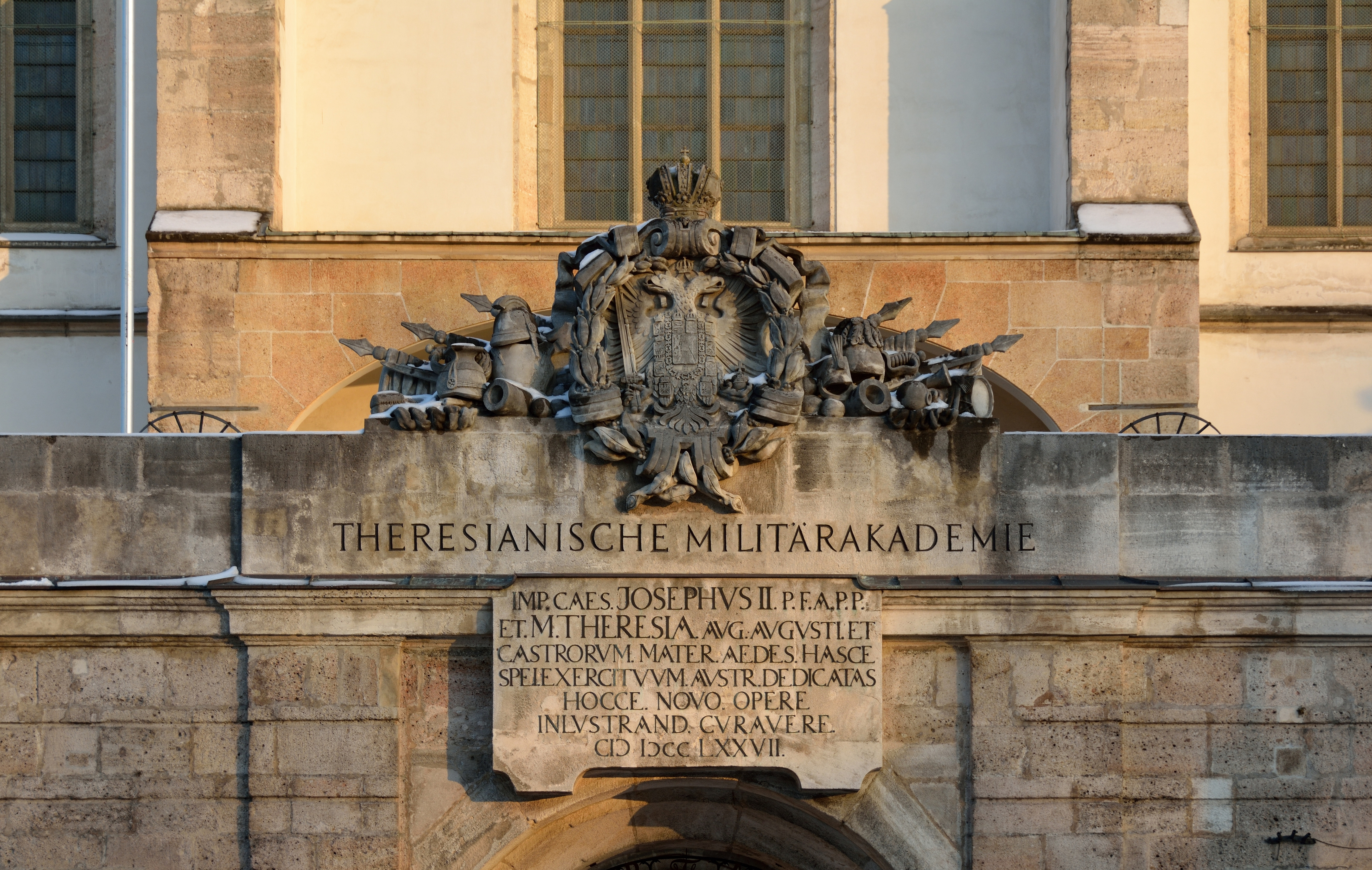 Coat of Arms above the entrance of Theresianische Militärakademie at Wiener Neustadt, Lower Austria